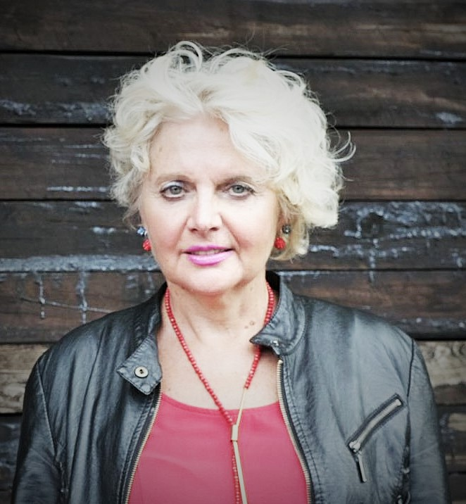 Portrait of the author Domnica Radulescu, taken in 2016.